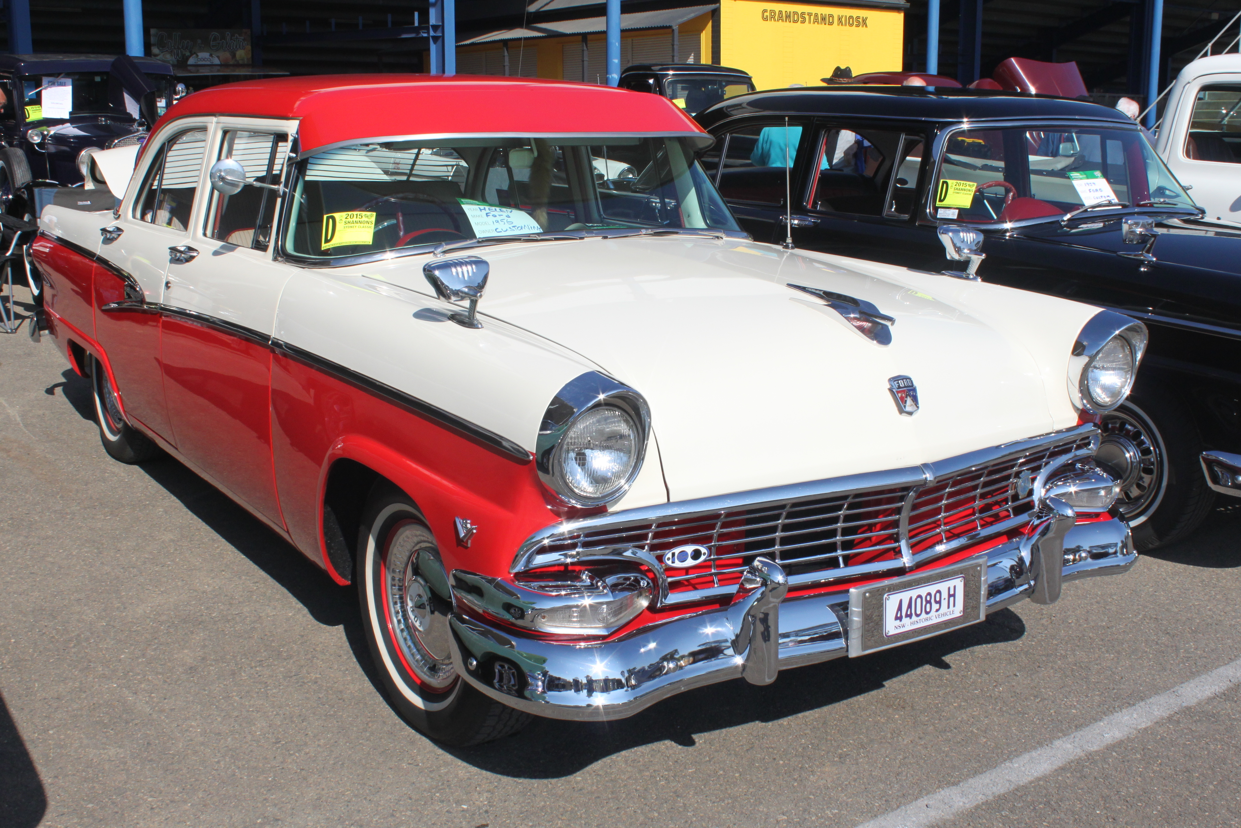 Shannon's Classic, Eastern Creek, NSW August 2015